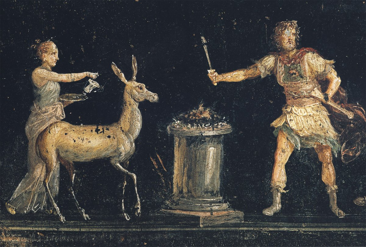 An ancient Fourth-Pompeian-Style Roman wall painting depicting a scene of sacrifice in honor of the goddess Diana; she is seen here accompanied by a deer. The fresco was discovered in the triclinium of House of the Vettii in Pompeii, Italy. As with the other frescoes in this house, the painting dates between the time of the earthquake of Pompeii in 62 AD and the eruption of Mount Vesuvius in 79 AD that destroyed Pompeii, killing its inhabitants, but preserved many ancient works of art.